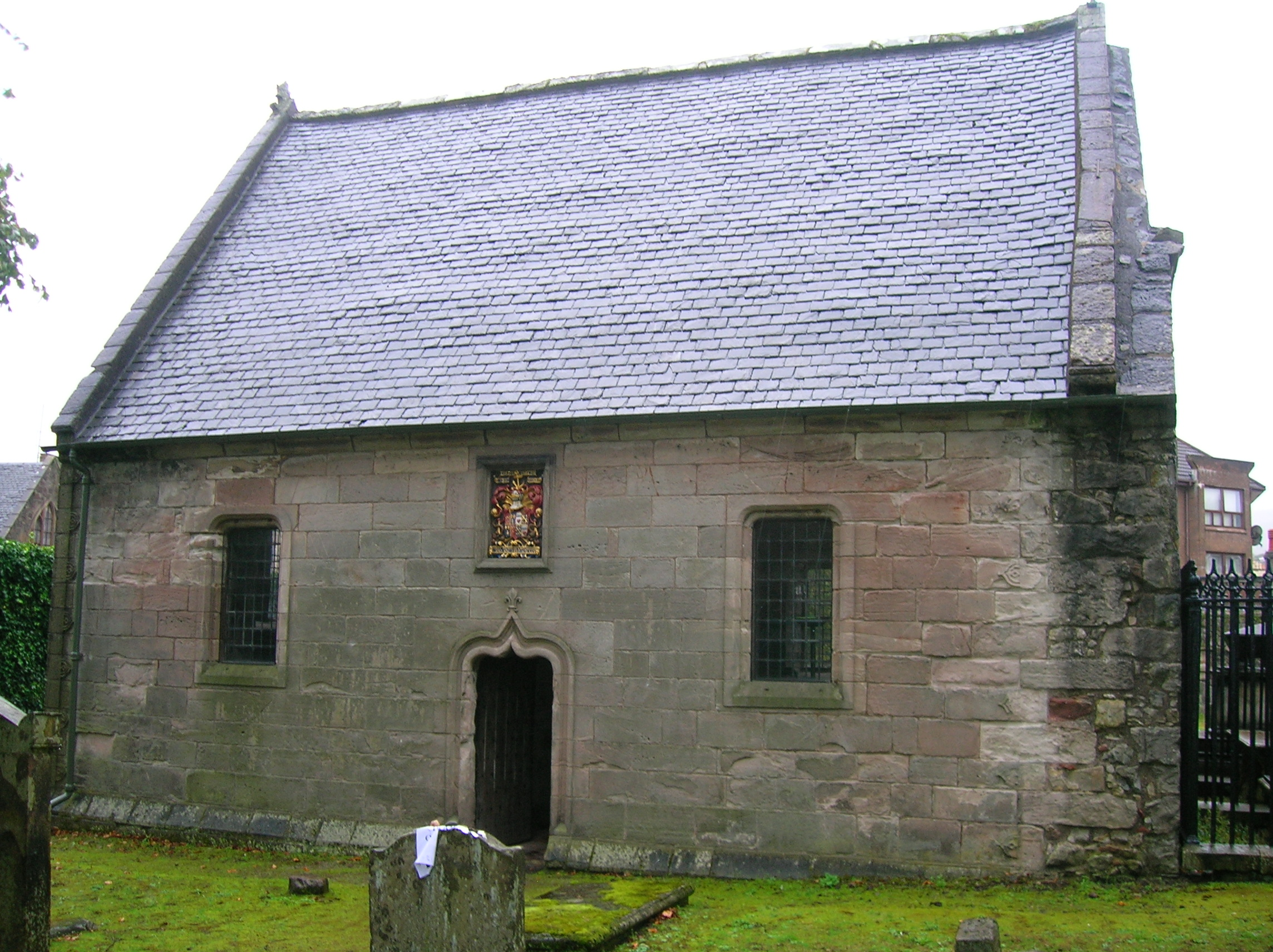 The Skelmorlie Aisle, Largs, North Ayrshire, Scotland.